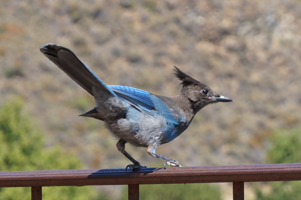 A Steller's Jay near Nepenthe Restaurant, Big Sur, Central Coast, California, USA.